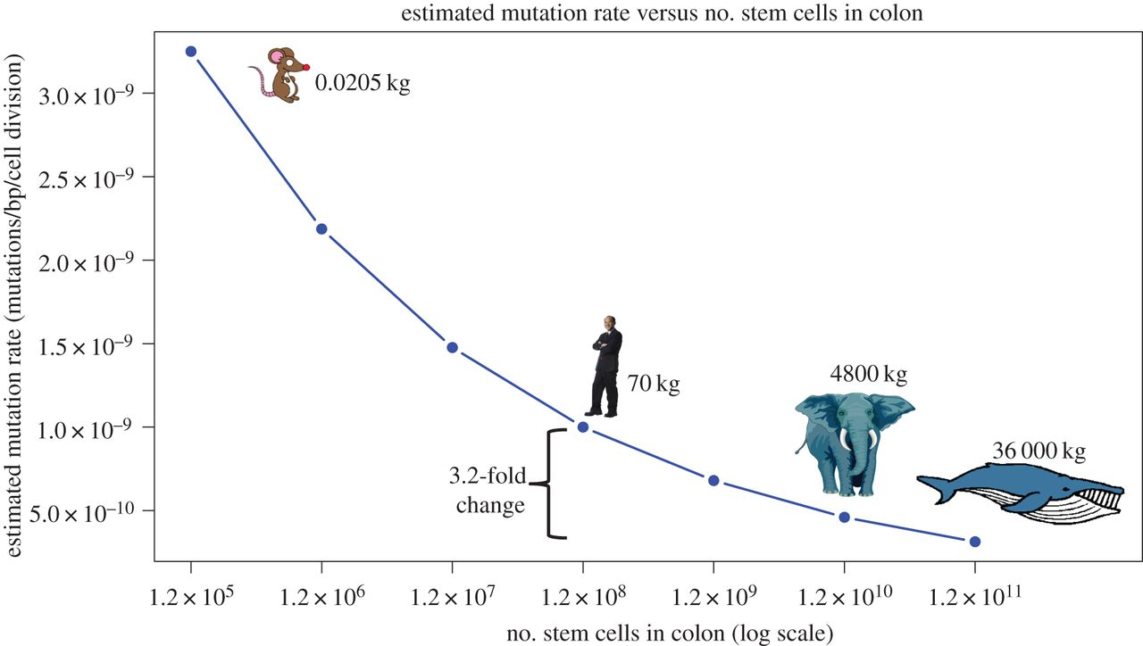 Estimated somatic mutation rates scaling with size. Mutation rate estimates show that a 3.2-fold decrease enables an animal that is 1000× larger (and so with 1000× more stem cells) than a human to have the same cancer risk. The mutation rates shown in the plot resulted in cancer risk predictions for the given number of cells that best matched the estimates for human (i.e. 1.2 × 108 colonic stem cells) using the Calabrese–Shibata algebraic model.